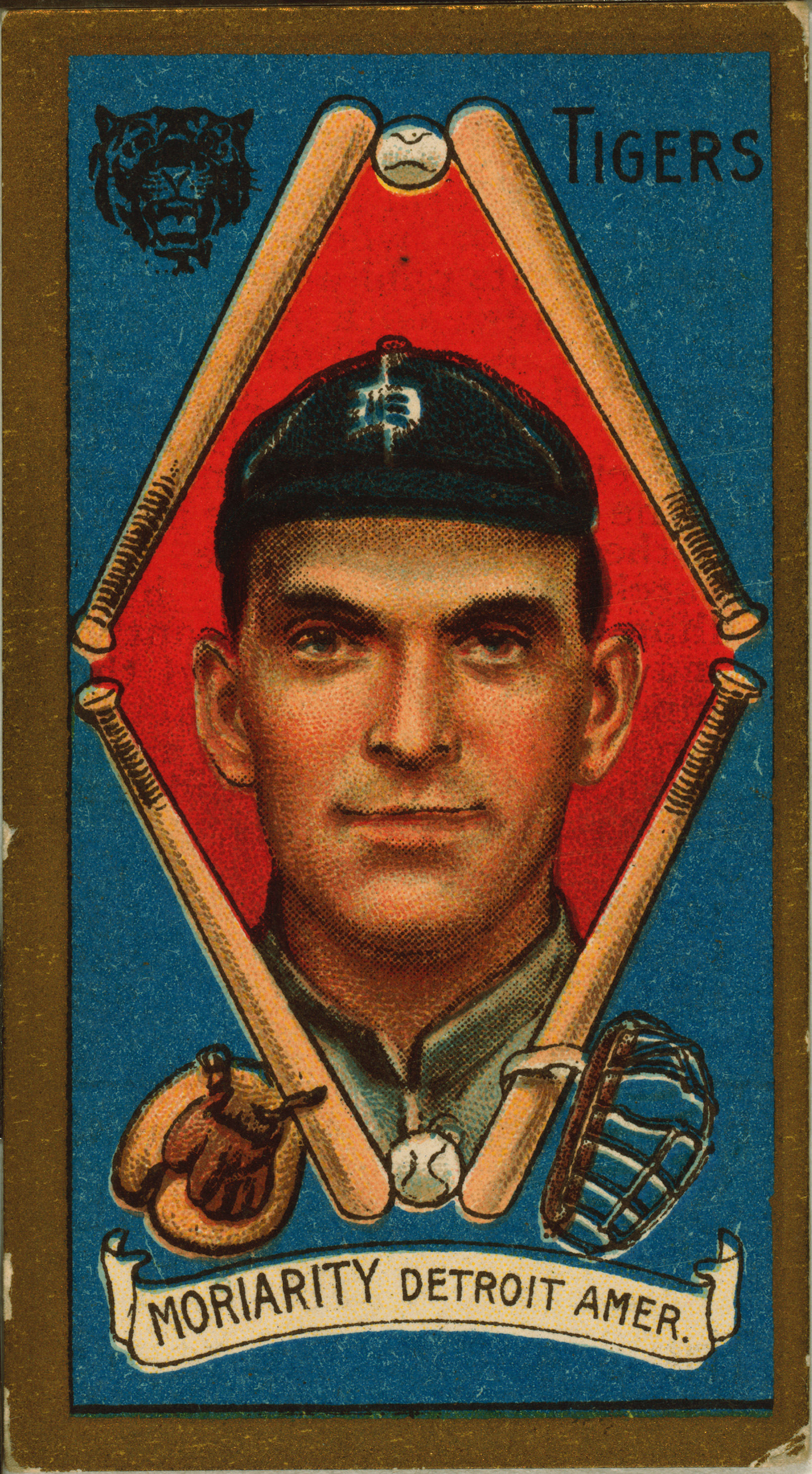 Baseball card of George Moriarty, Detroit Tigers. T205 Gold Borders set. reverse George Moriarty, the third baseman for whose services the Detroits paid a large price to the New York Americans in 1908, is an inventor and song-writer as well as a ball player. He is physically alert, as well as mentally, and one of the fastest men on the paths in the American League. He watches the pitcher's handling of the ball constantly, and if he is on third and the opposing battery gets at all careless, is liable to steal home on them. In 1909 he did this daring trick five times. G[ames] | B[atting] | F[ielding] 1908 ... 101 | .236 | .965 1909 ... 133 | .273 | .939 1910 ... 136 | .251 | .927